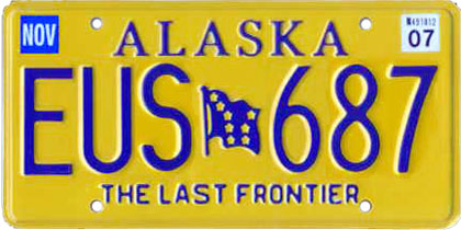 2007 Alaska License Plate, edited with white border to match similar images here.